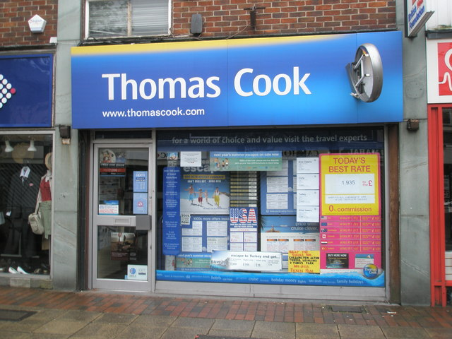 Thomas Cook in West Street Precinct